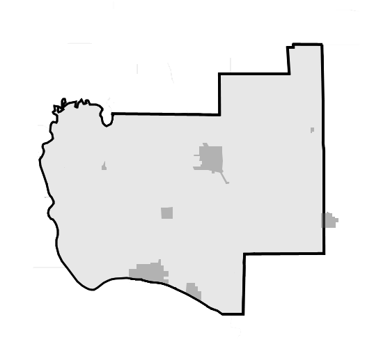 This is a map of Jersey County, Illinois, United States, which shows the location of its municipalities.